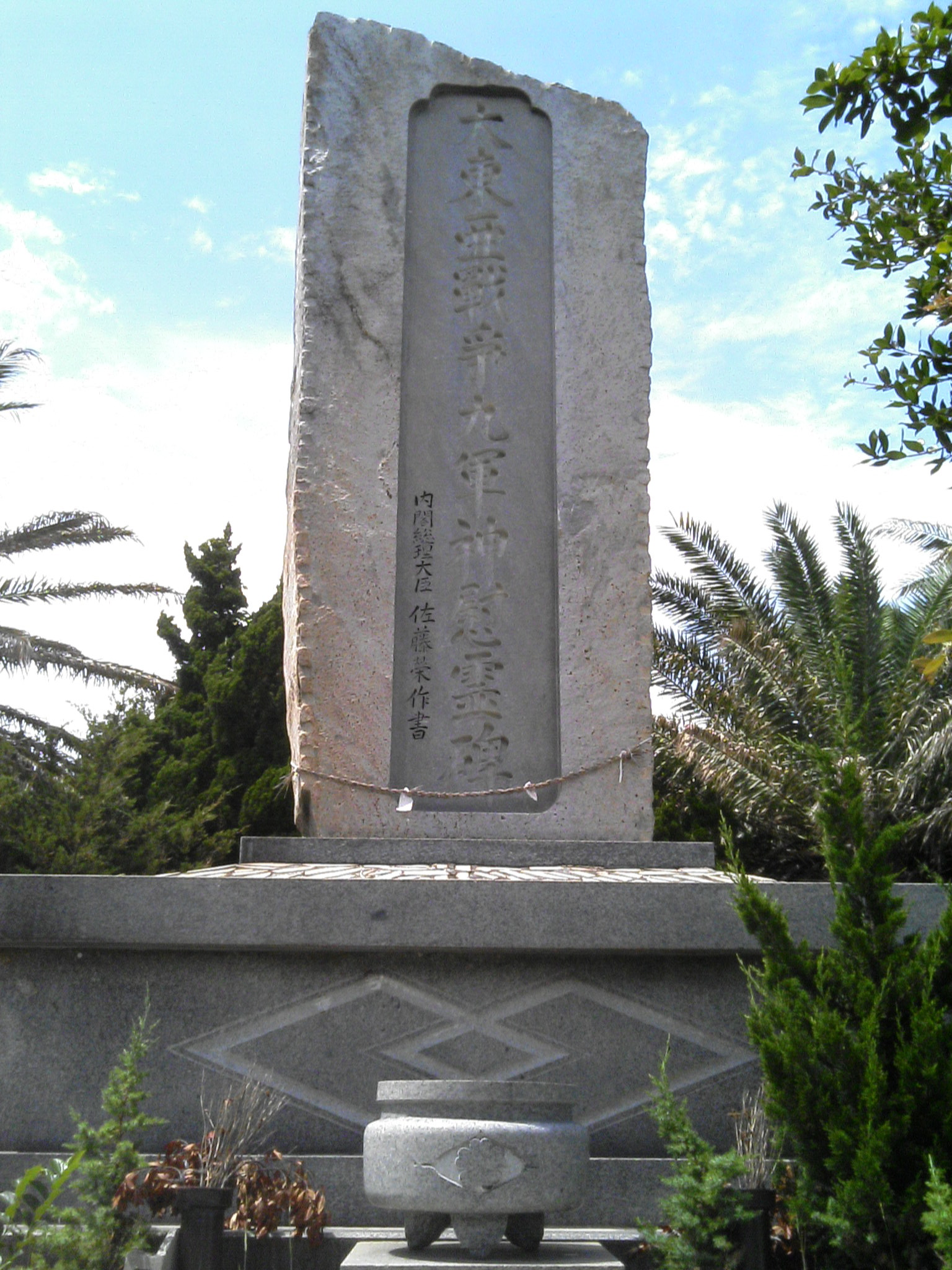 The 9 War Heroes (九軍神) monument in the Mitsukue neighborhood of Ikata, Ehime, Japan. Celebrates the lives of 9 young men who gave their lives for their country in the attack on Pearl Harbor.